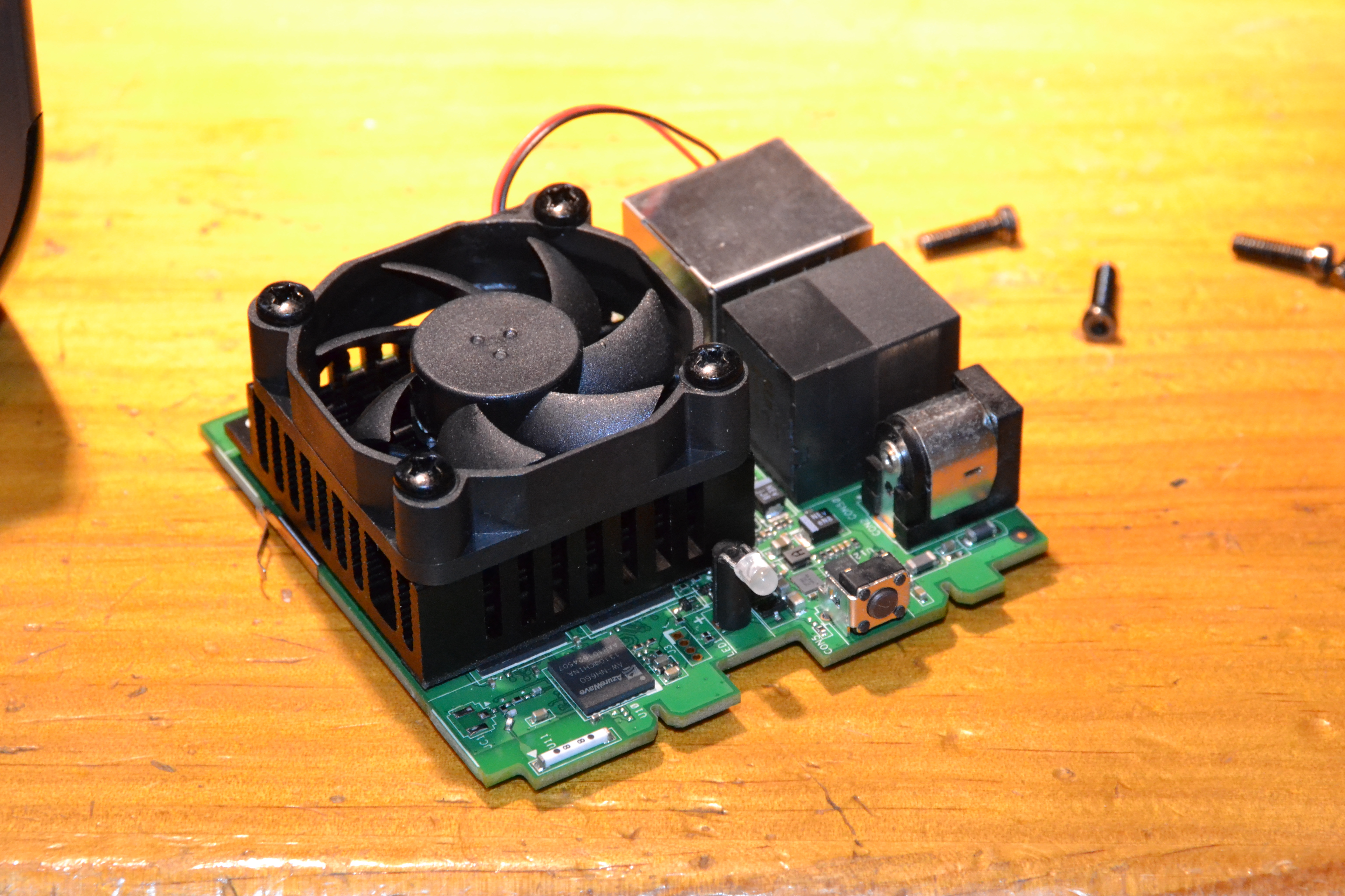 Really, really tiny. One big defect is its wireless antenna, being very deaf.